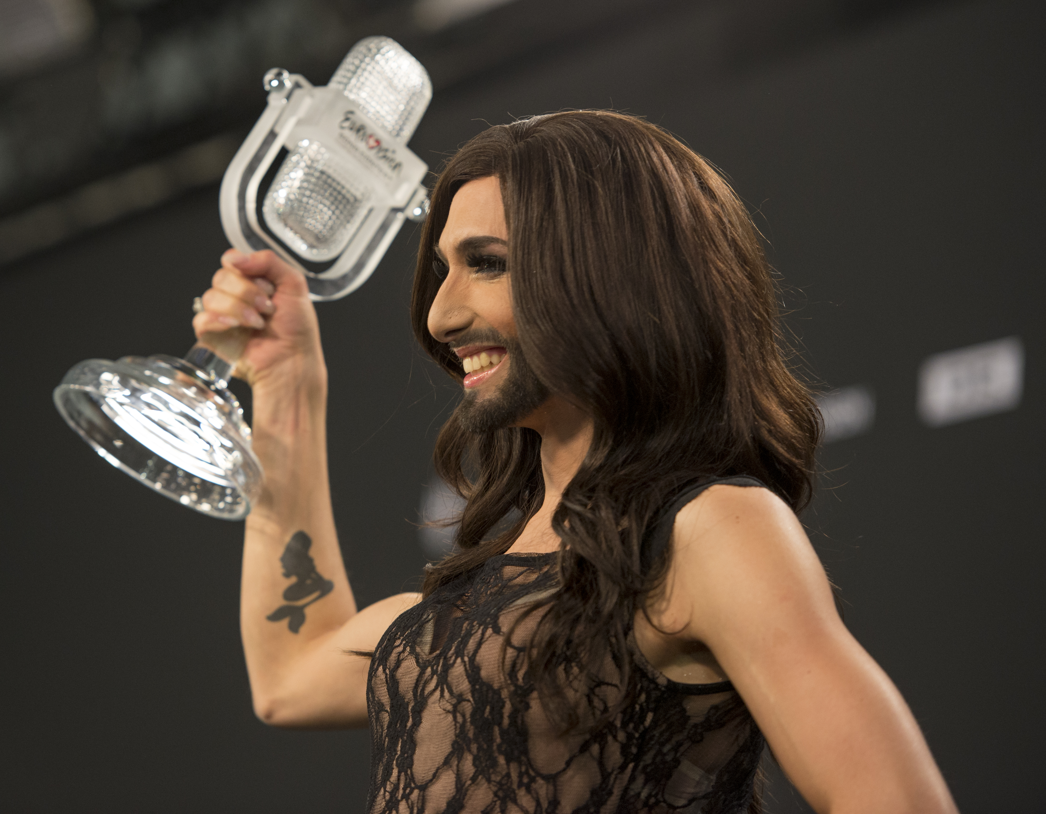 Conchita Wurst at the winners press conference, right after winning the Eurovision Song Contest 2014 Copenhagen. (Help translate this text)